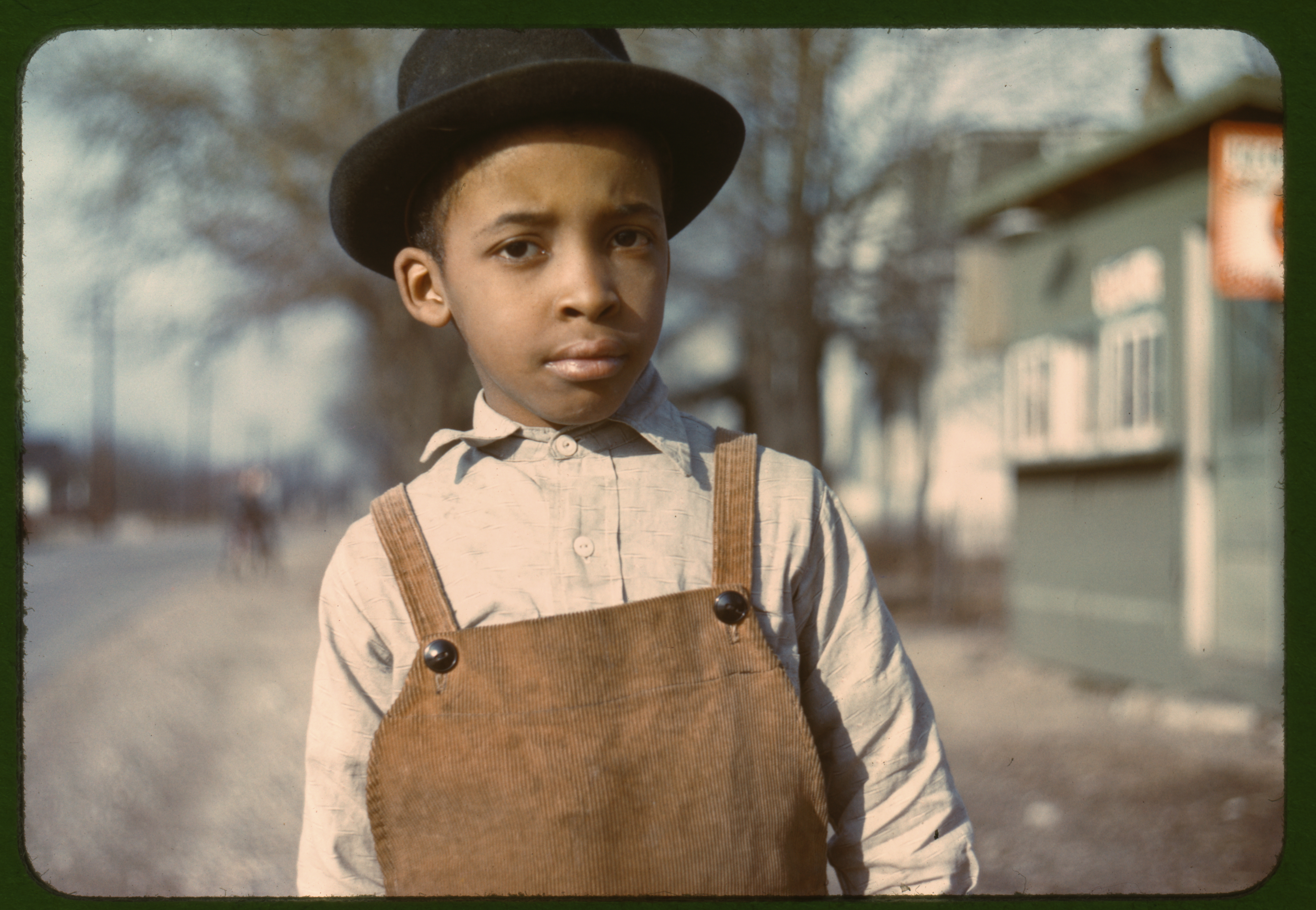 African American child with bowler hat and overall on a street.